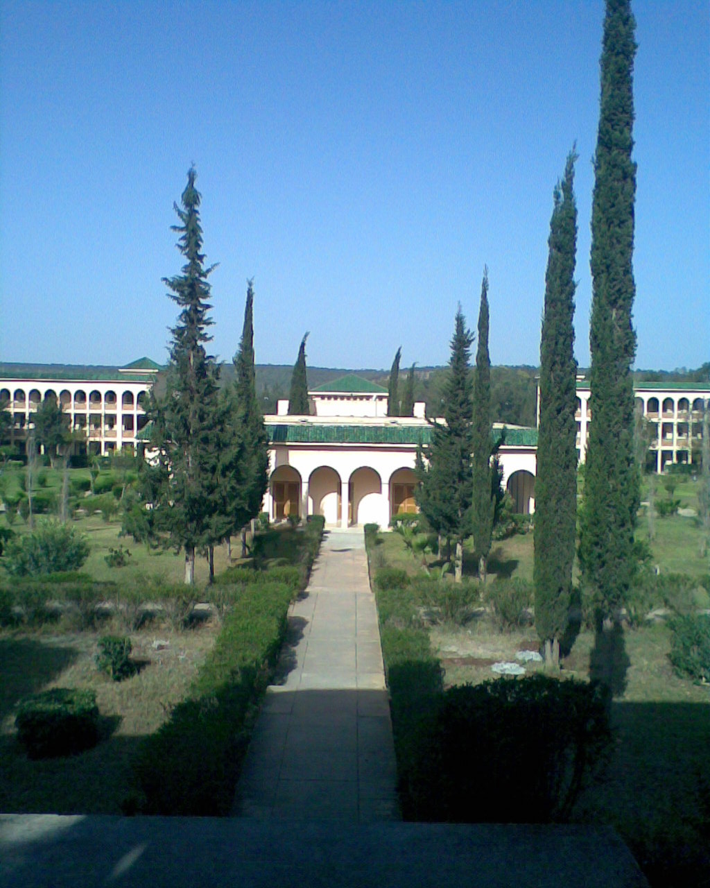 FST Settat